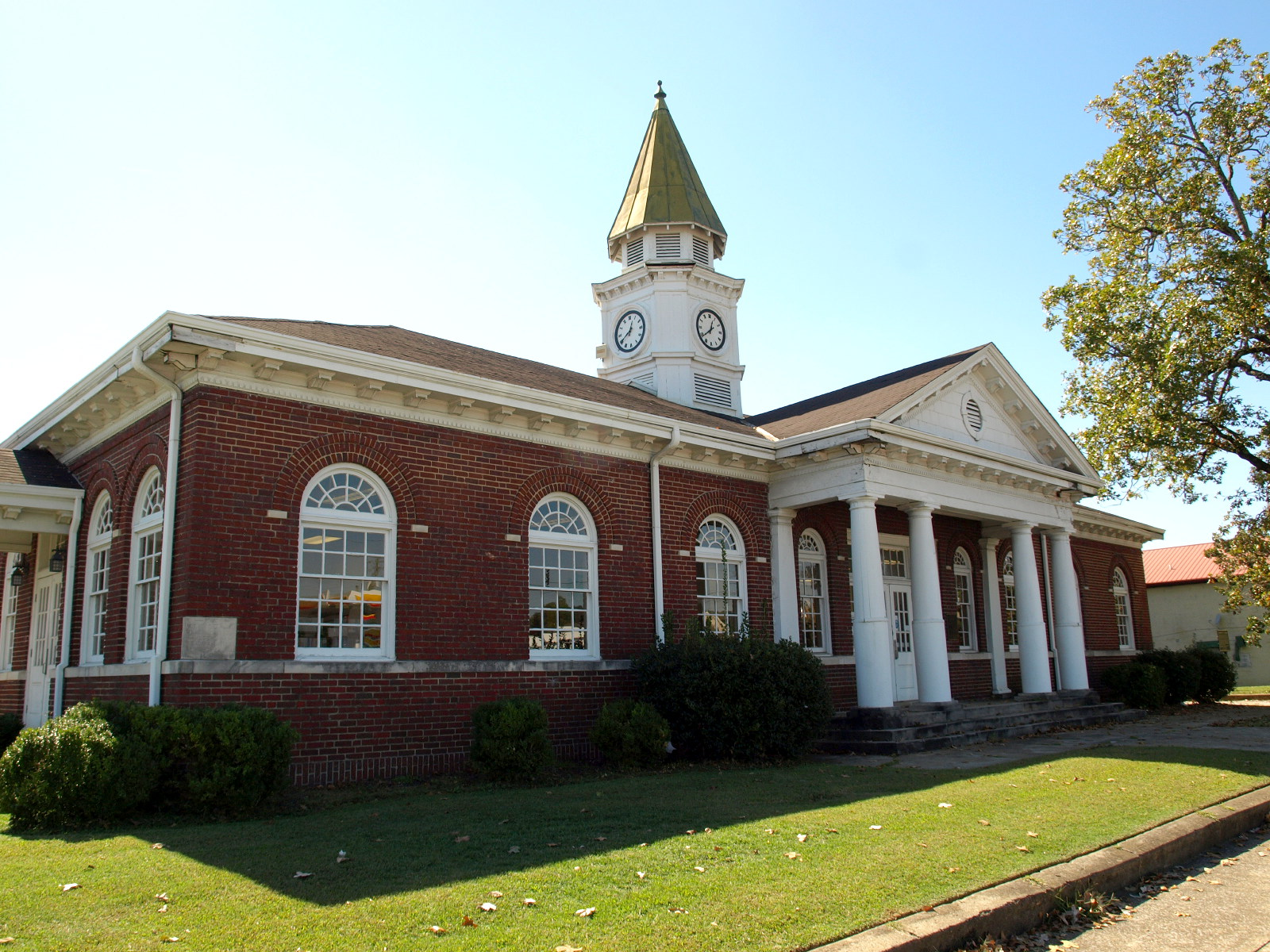 The Hoyt Warsham Alabama City Branch of the Gadsden Public Library in Gadsden, Alabama, listed on the Alabama Register of Landmarks and Heritage